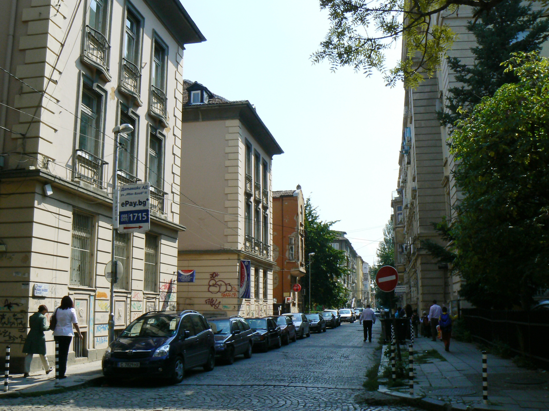 "Ivan Vazov" Street in Sofia